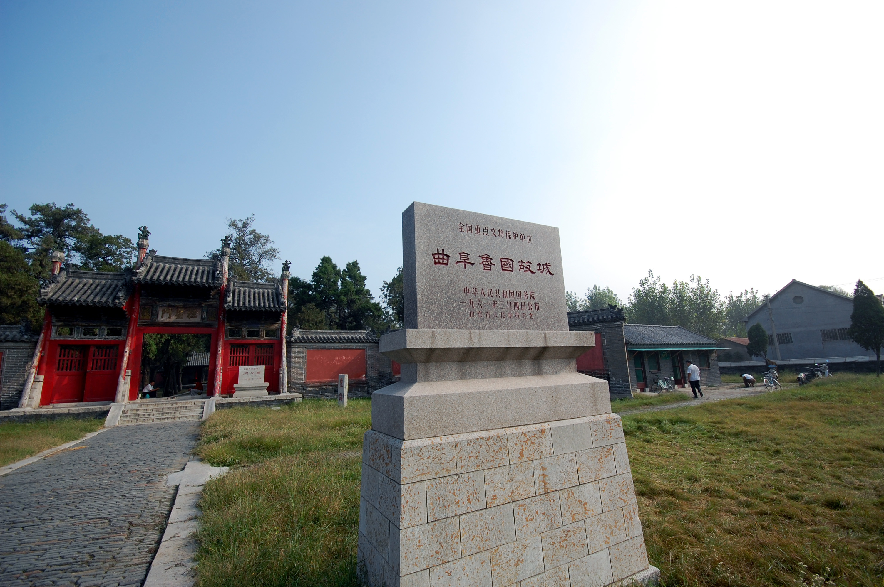 Ancient State of Lu, Qufu, China